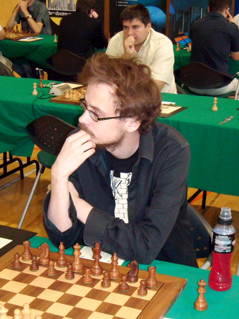 Jan Bernasek playing in the Najdorf Memorial in Warsaw (Poland)